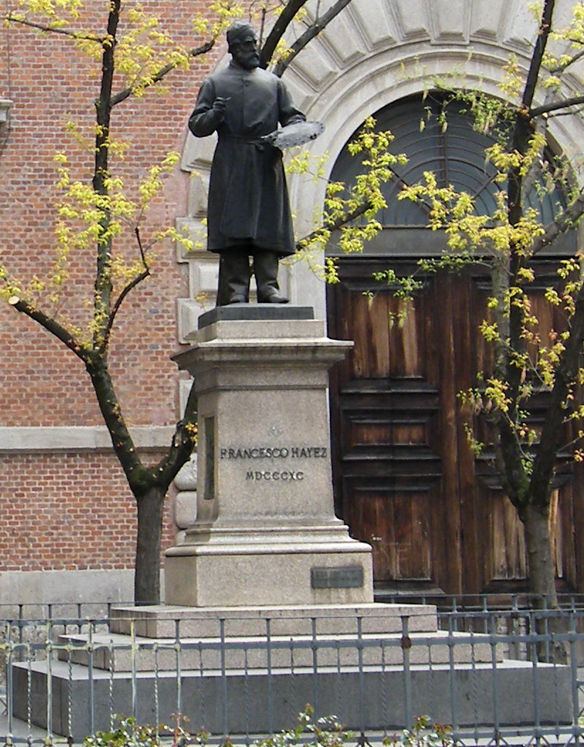 Statue of Francesco Hayez, Milan